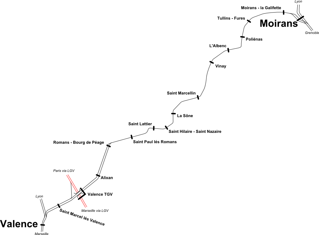 Map of the SNCF Ligne Valence-Moirans